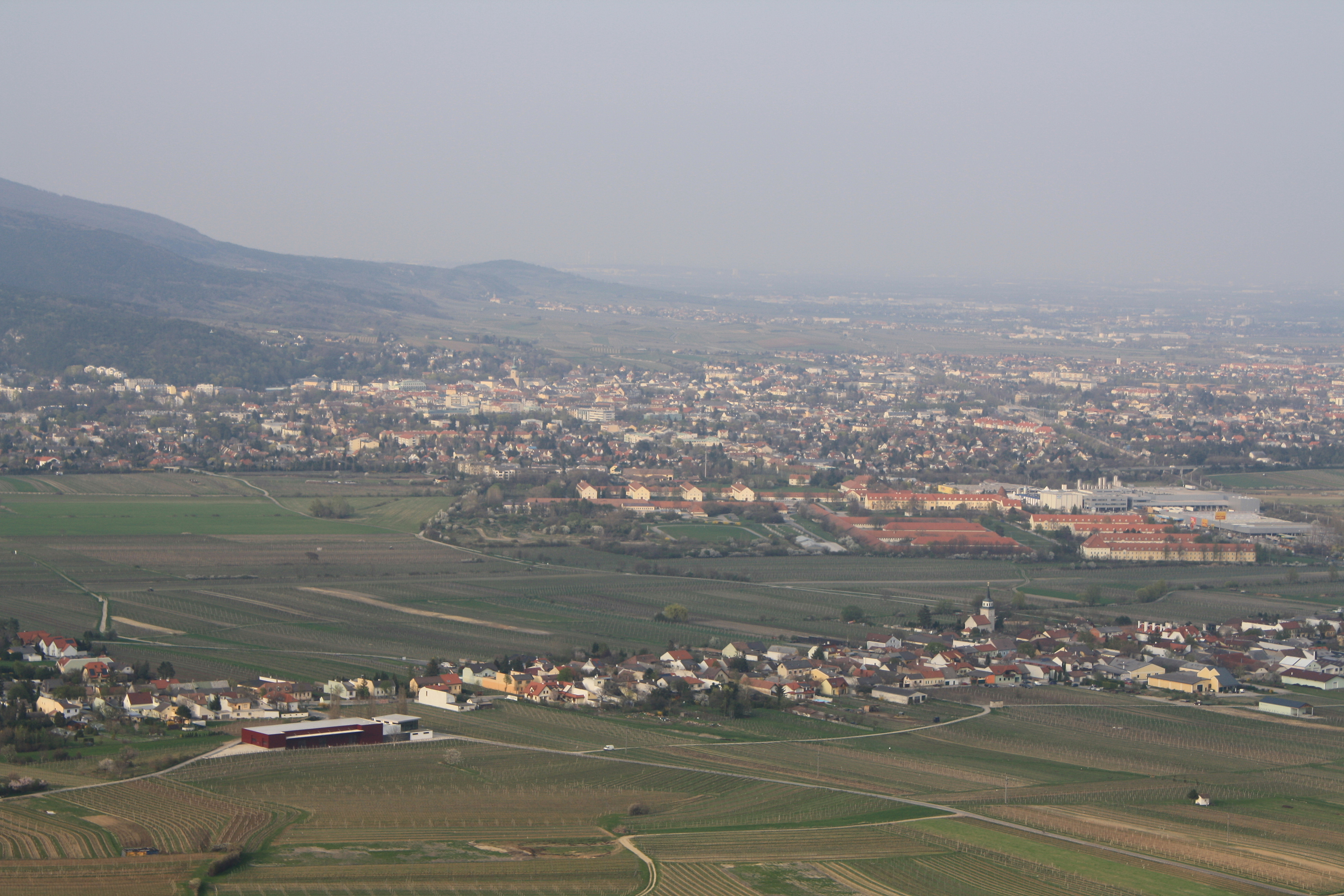 View from Harzberg near Bad Vöslau till north, Lower Austria